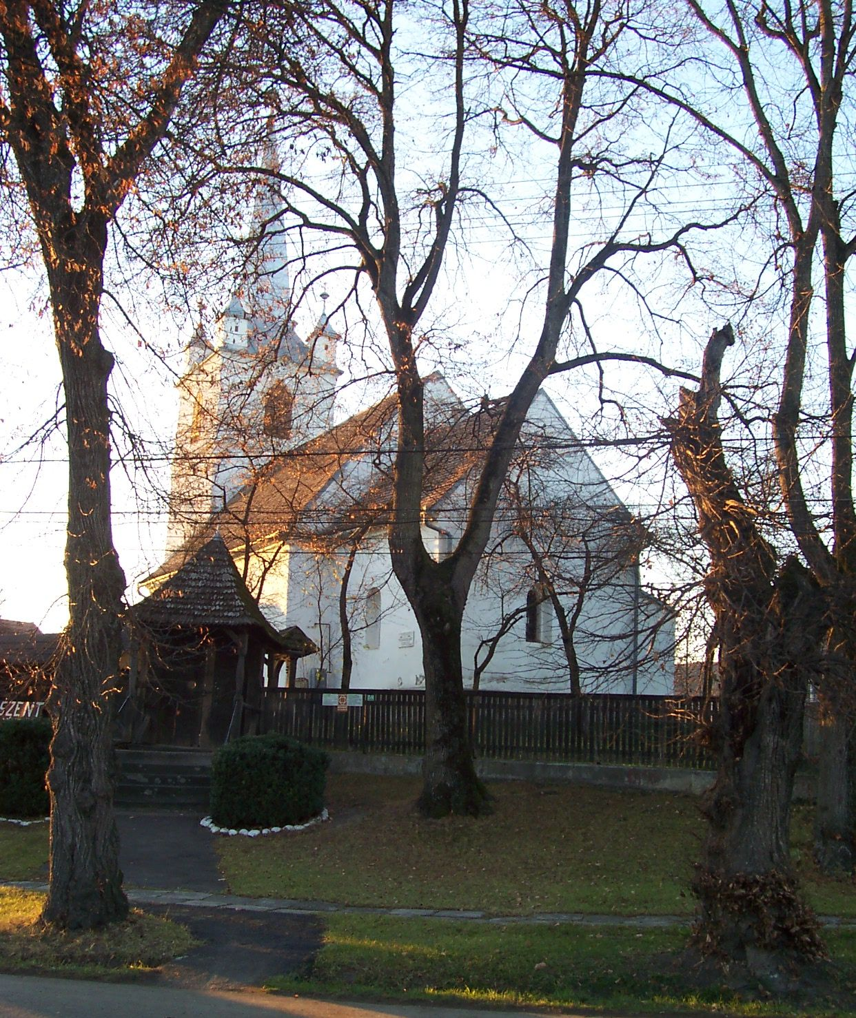 Unitarian Church Nyárádszentmárton/Mitreşti and the millenium trees